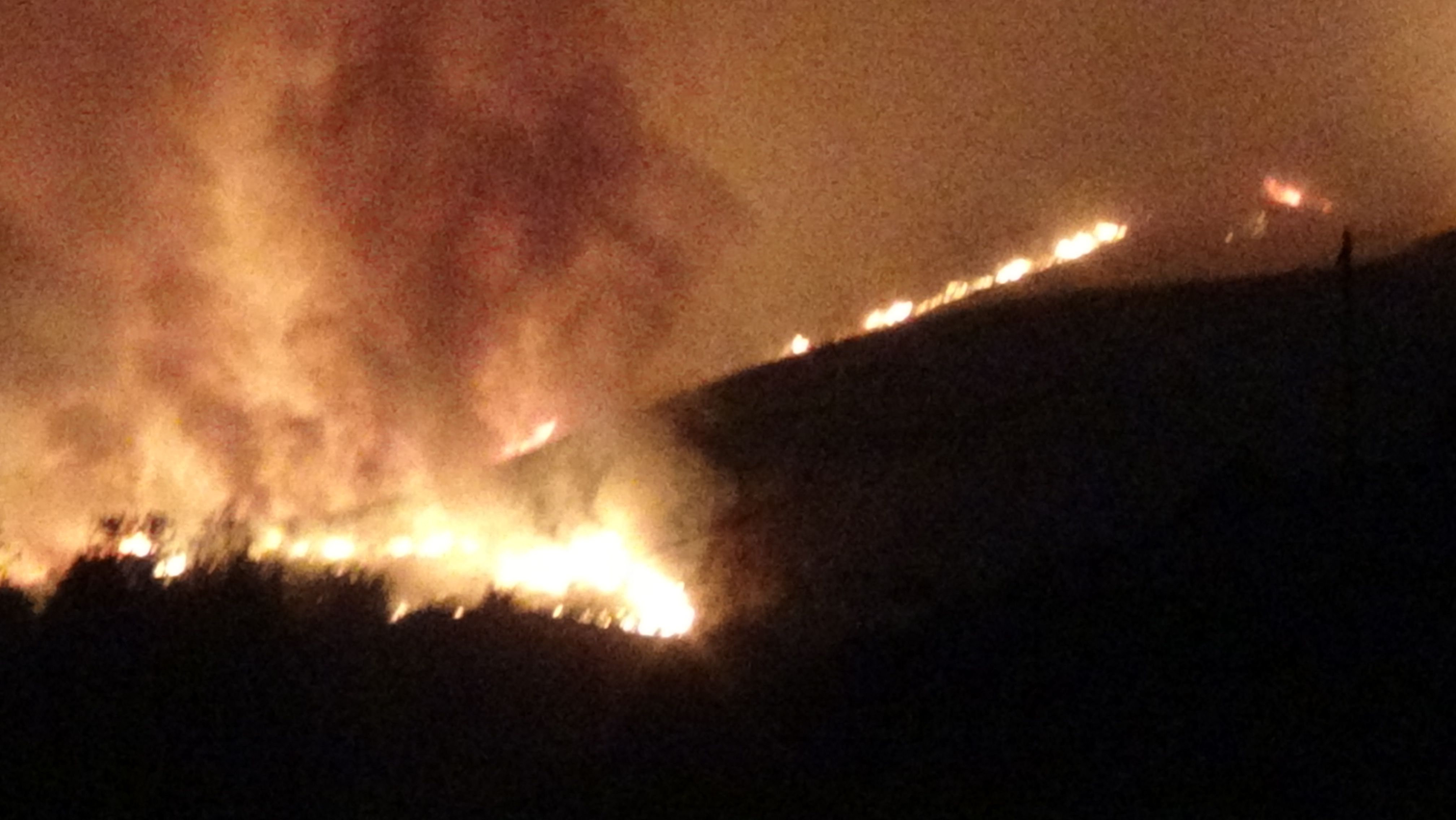 An up close picture of the Scherpa fire